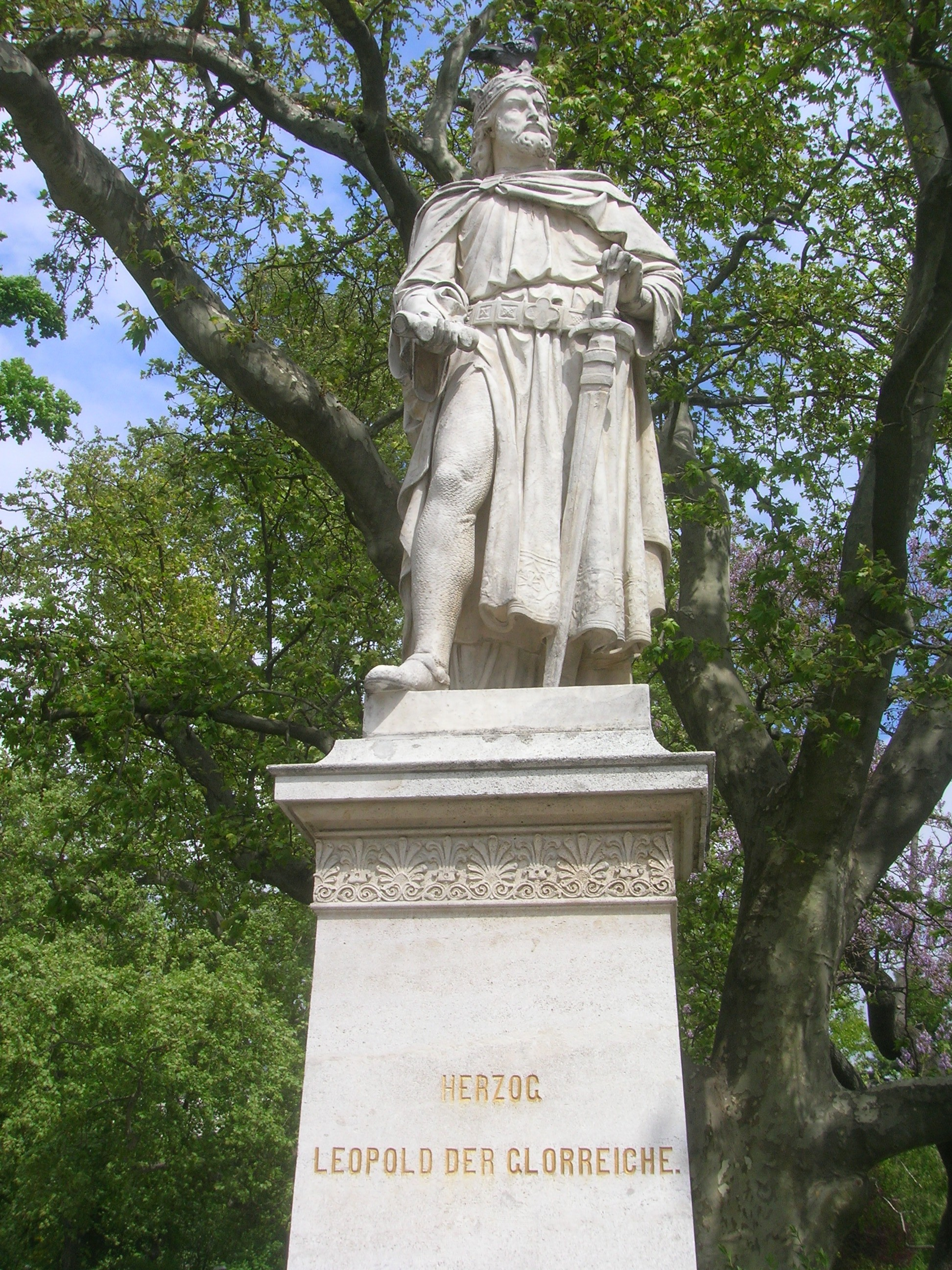 Statue of Leopold der Glorreiche at the Rathausplatz in Vienna.